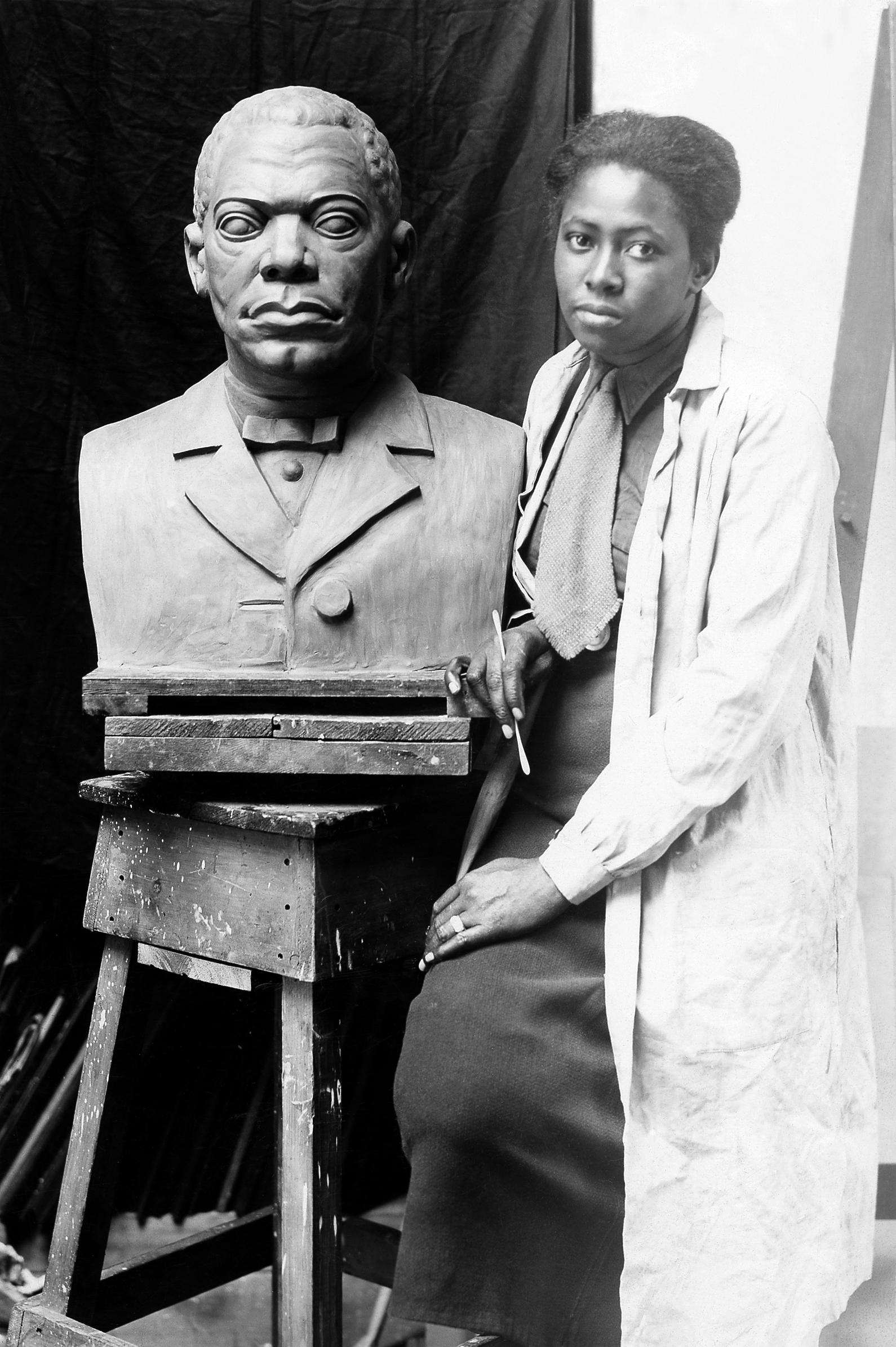 Photograph of Selma Burke with her portrait bust of Booker T. Washington. Identification on verso: Portrait Bust, Booker T. Washington; 63 W. 11; P.H. 49 e.; Selma Burke, 108 West 16th St. N.Y.